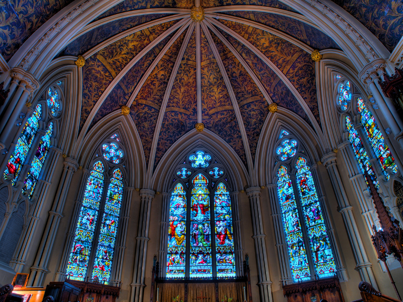 St. James Cathedral, Toronto, Ontario, Canada.